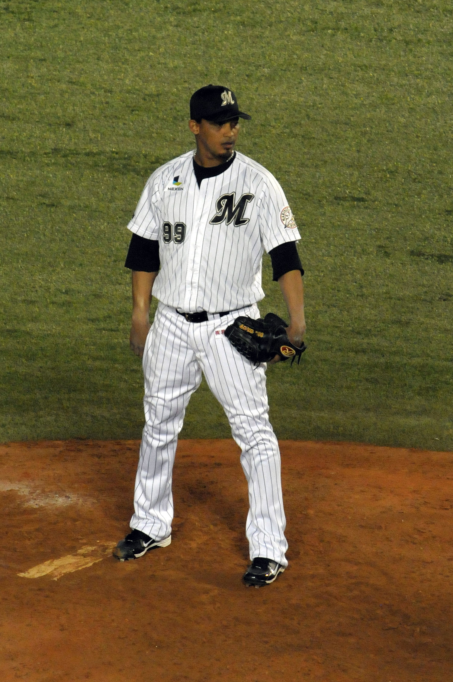 Carlos Rosa, pitcher of the Chiba Lotte Marines, at Chiba Marine Stadium.